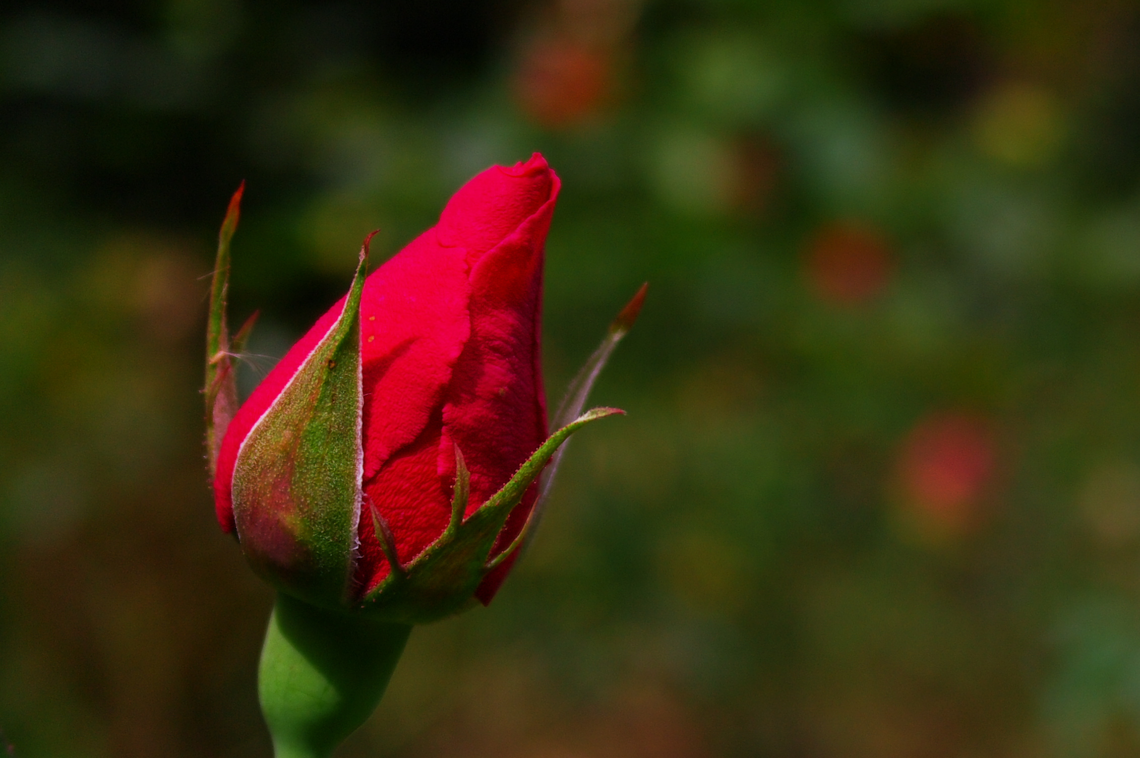 Beautiful rose bud seen at SIMS park, Coonoor.